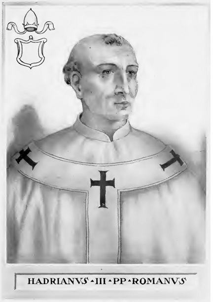 This illustration is from The Lives and Times of the Popes by Chevalier Artaud de Montor, New York: The Catholic Publication Society of America, 1911. It was originally published in 1842.